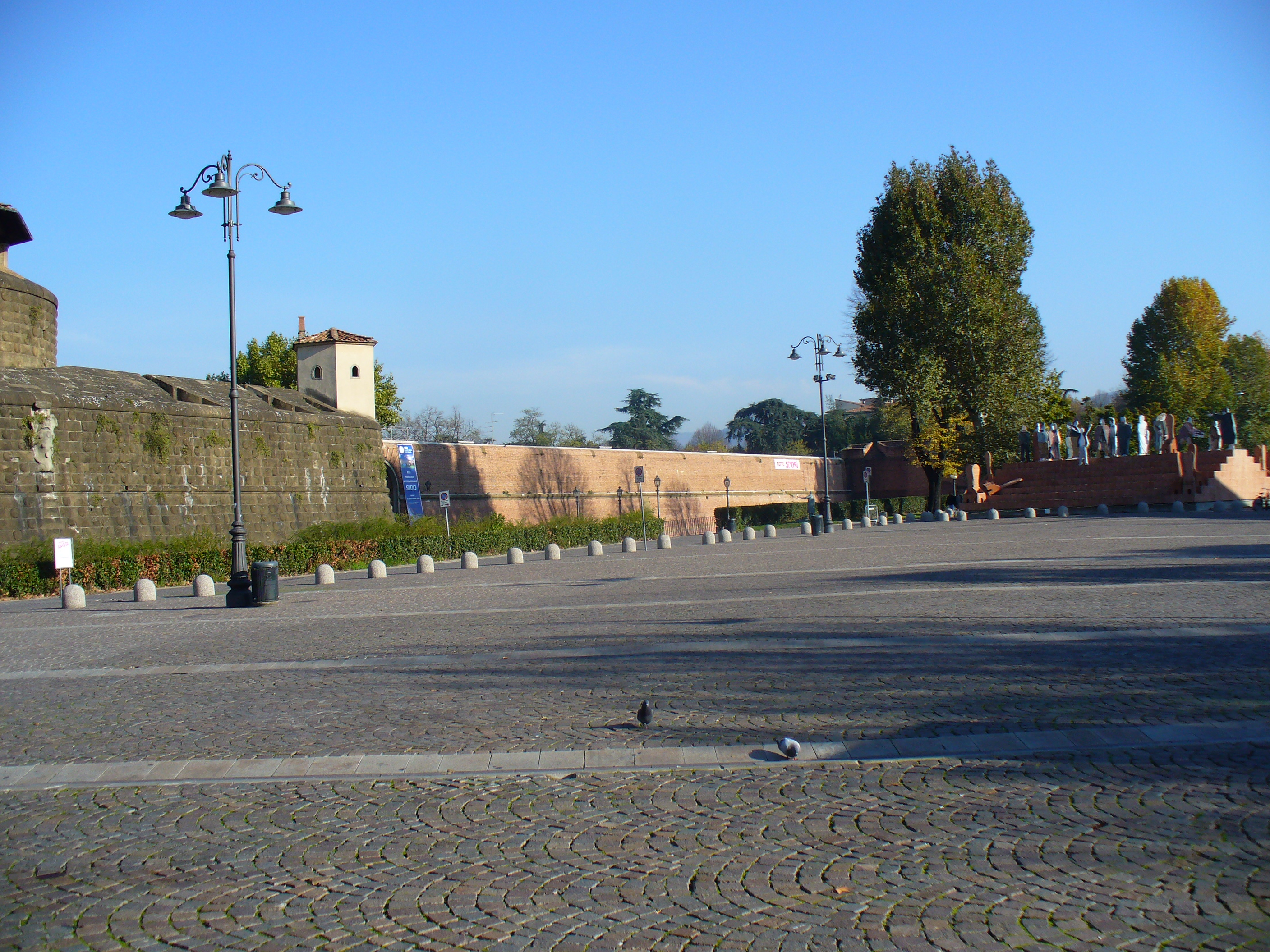 Fortezza da Basso (Firenze)